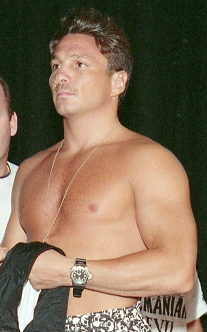 Vinny Pazienza preparing to fight Roberto Duran in Vegas 1994